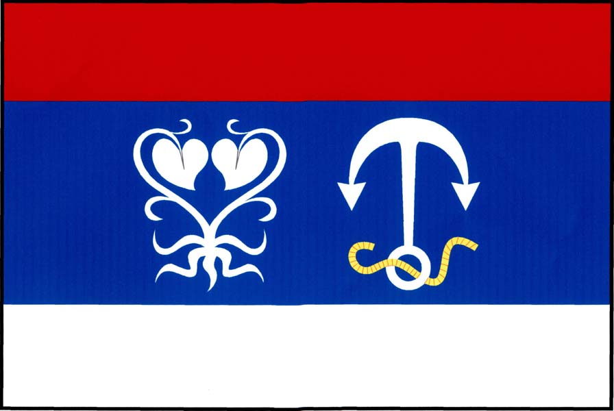 Municipal flag of Bohuslavice village, Náchod District, Czech Republic.